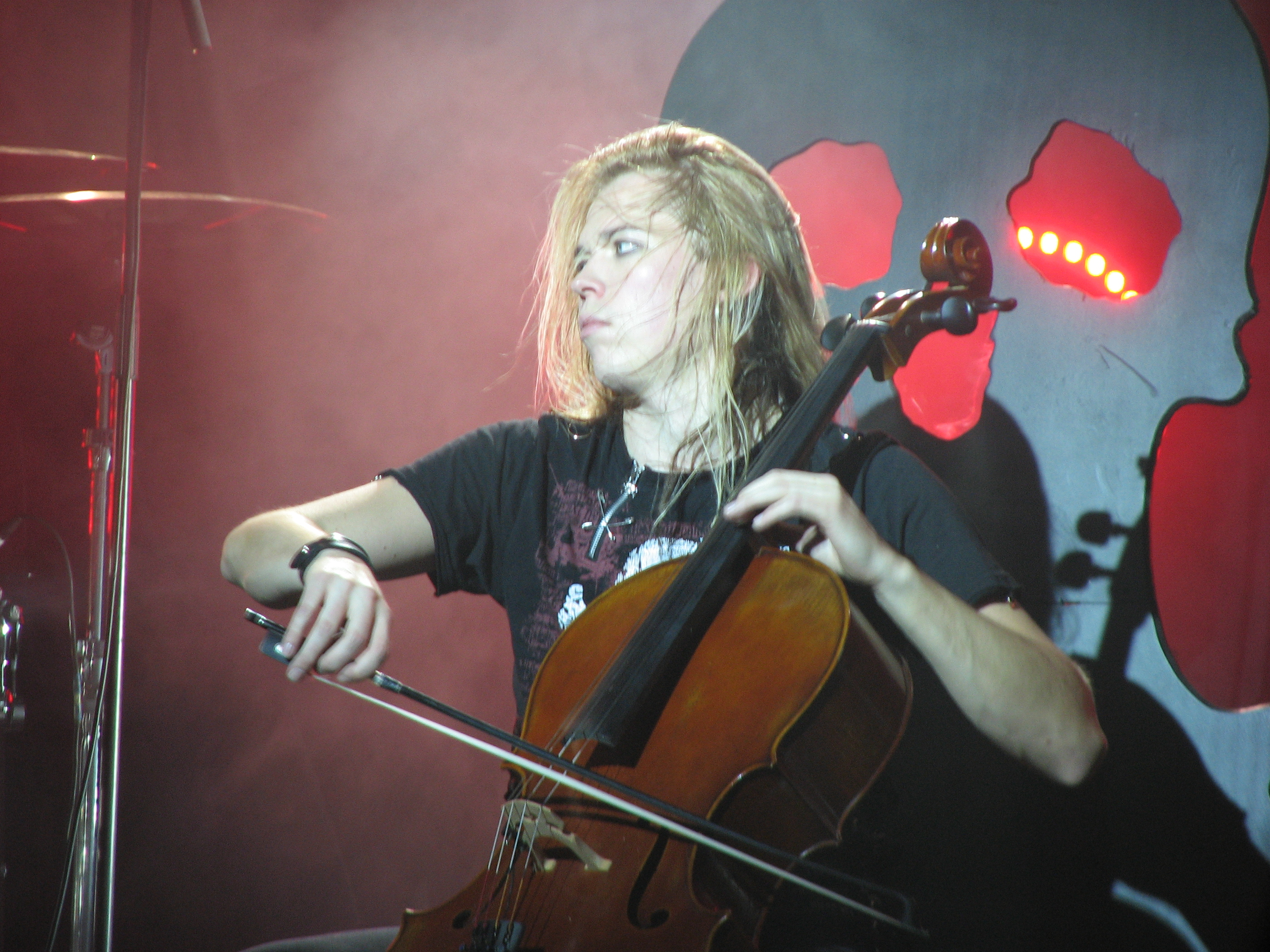 Eicca Toppinen with Apocalyptica. 12th October 2007, Pakkahuone Hall, Tampere, Finland.